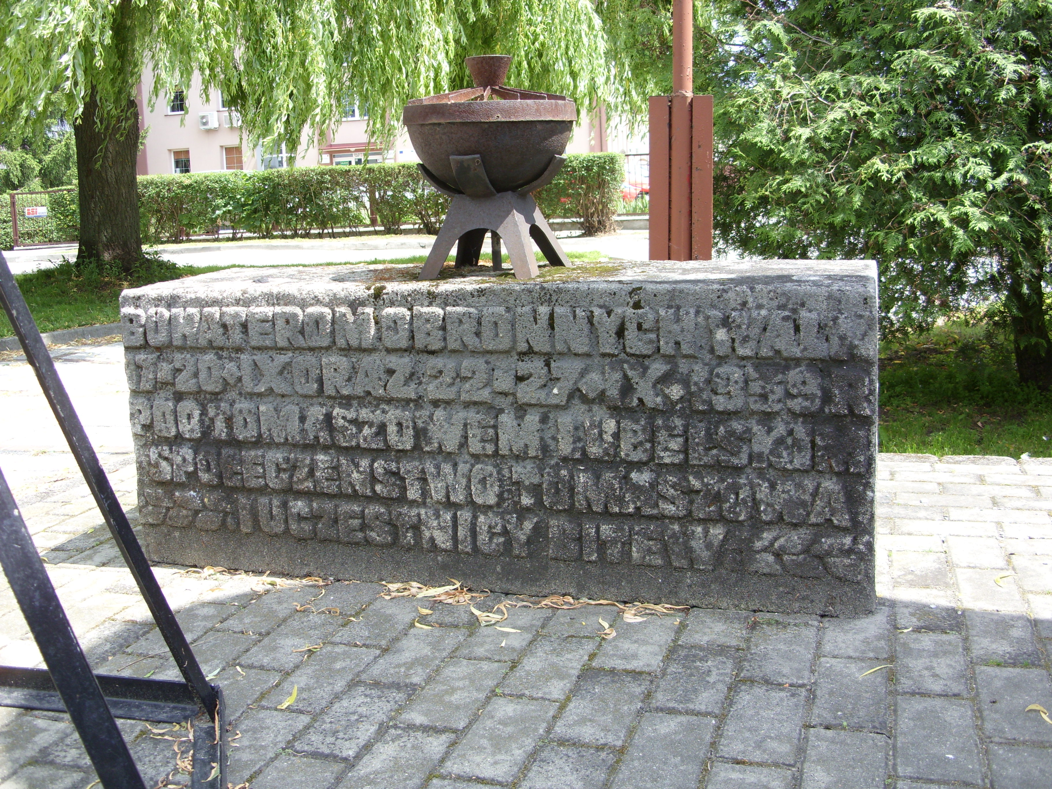 Heroes of the defensive struggle from 17 to 27 September 1939 near Tomaszów Lubelski. 1939 Polish Defense War against Nazi Germany.